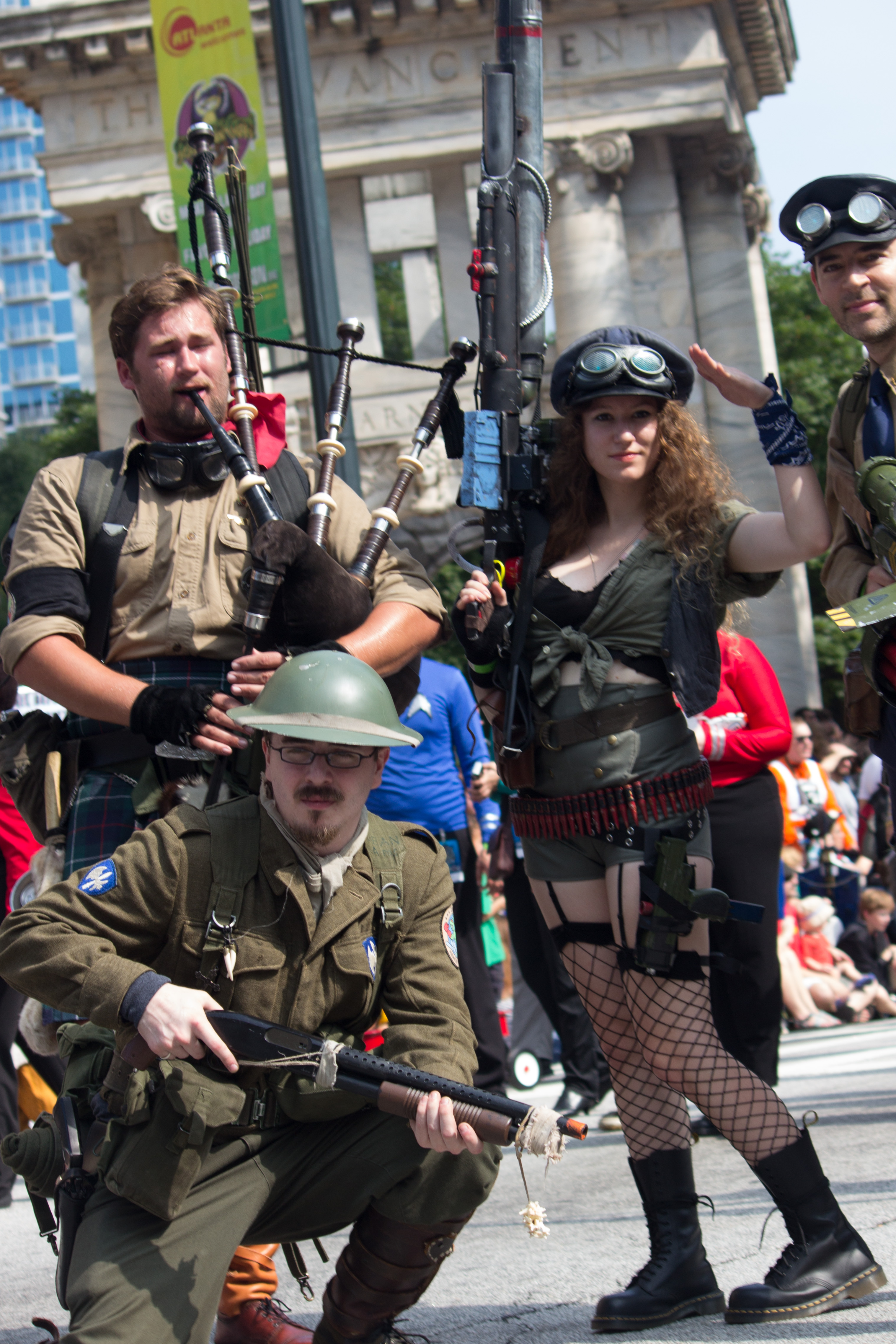 The 2013 Dragon*Con parade through Atlanta.